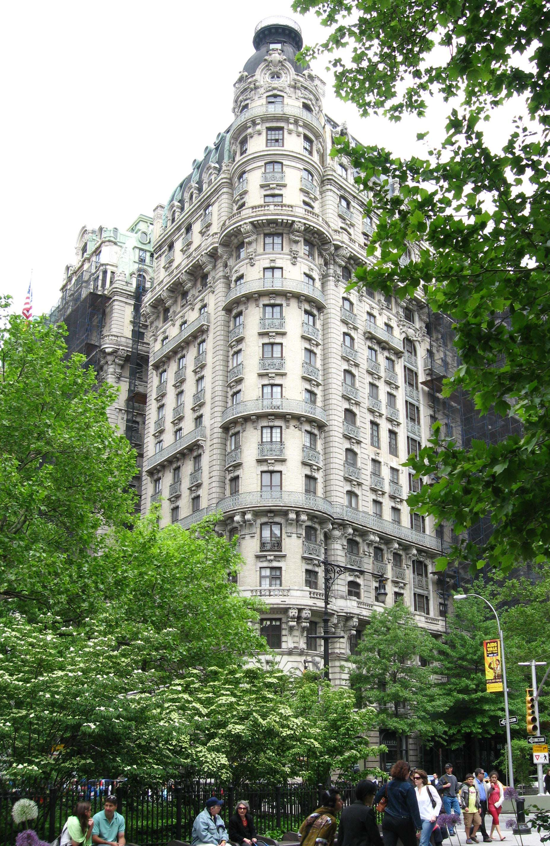 Looking up and northwest at The Ansonia on a cloudy late morning in May 2008. See also File:Ansonia apartments LC-D4-17421.jpg